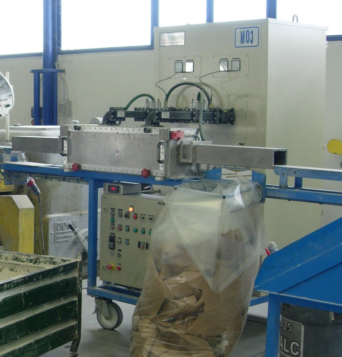 Plastics processing microwave heating tunnel made by Sairem SAS, UK, used to preheat a polymer rod before extrusion to make semi finished product.